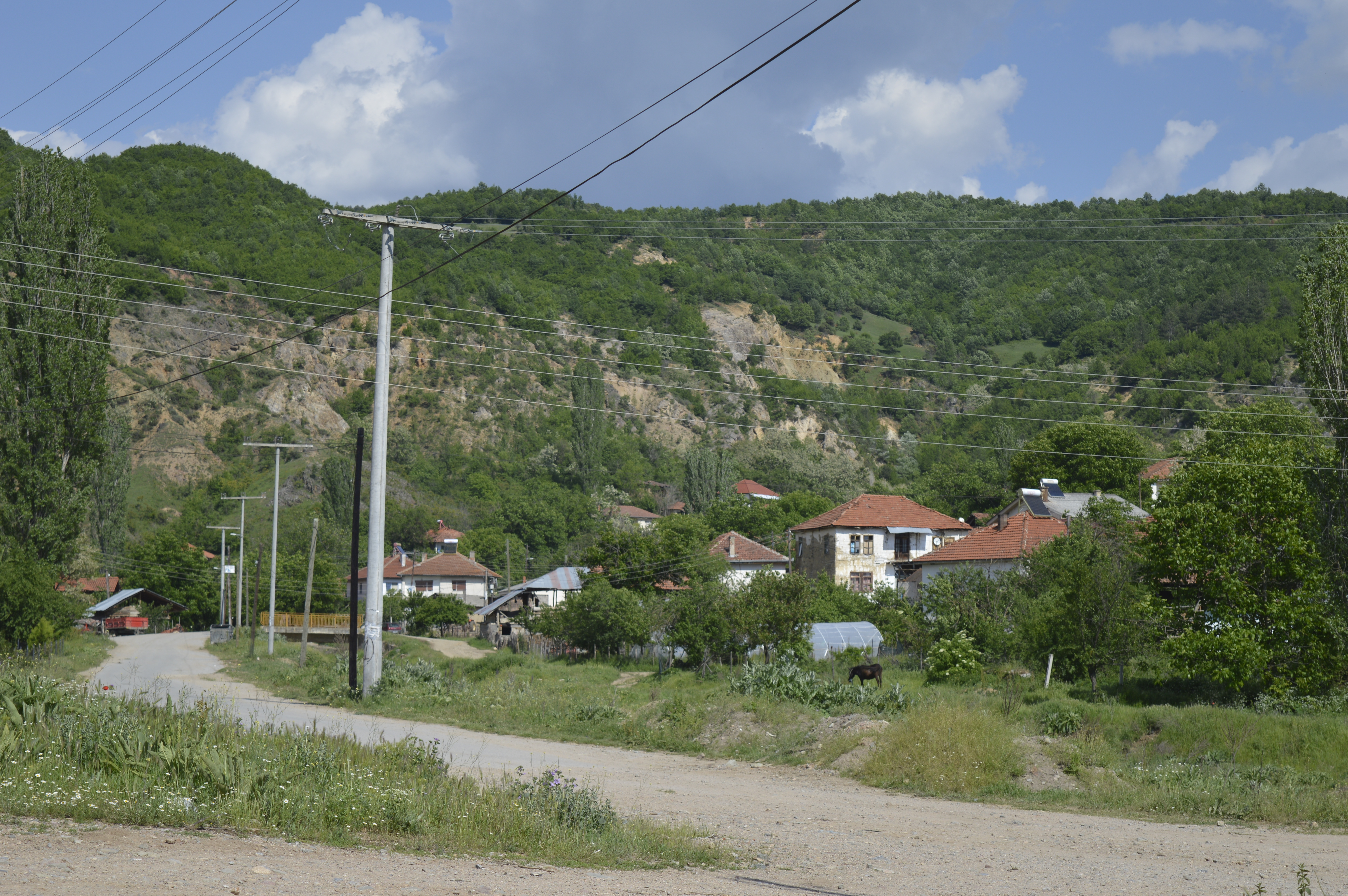 View of the village Grad